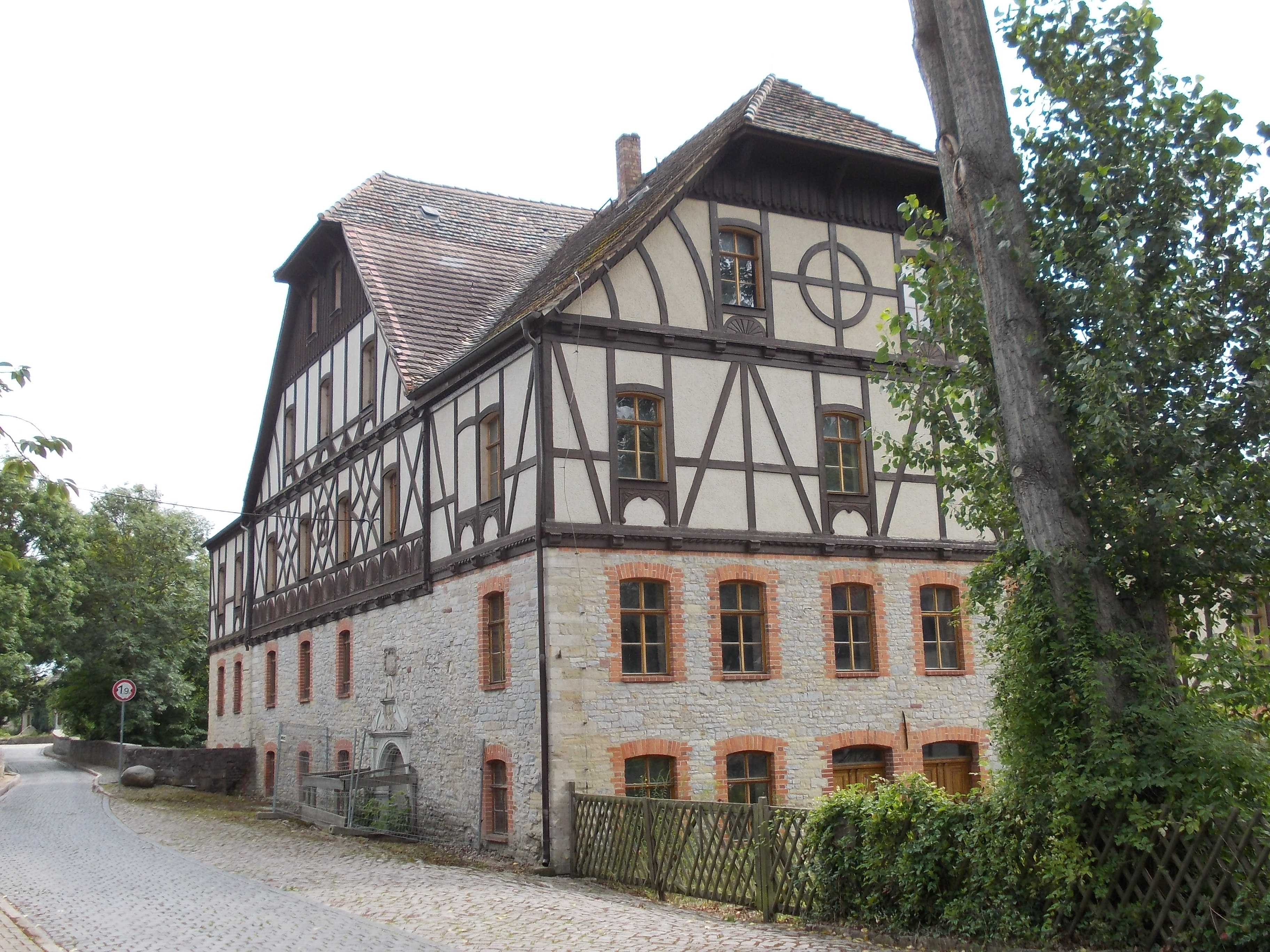 Neugattersleben watermill (Nienburg/Saale, district: Salzlandkreis, Saxony-Anhalt)